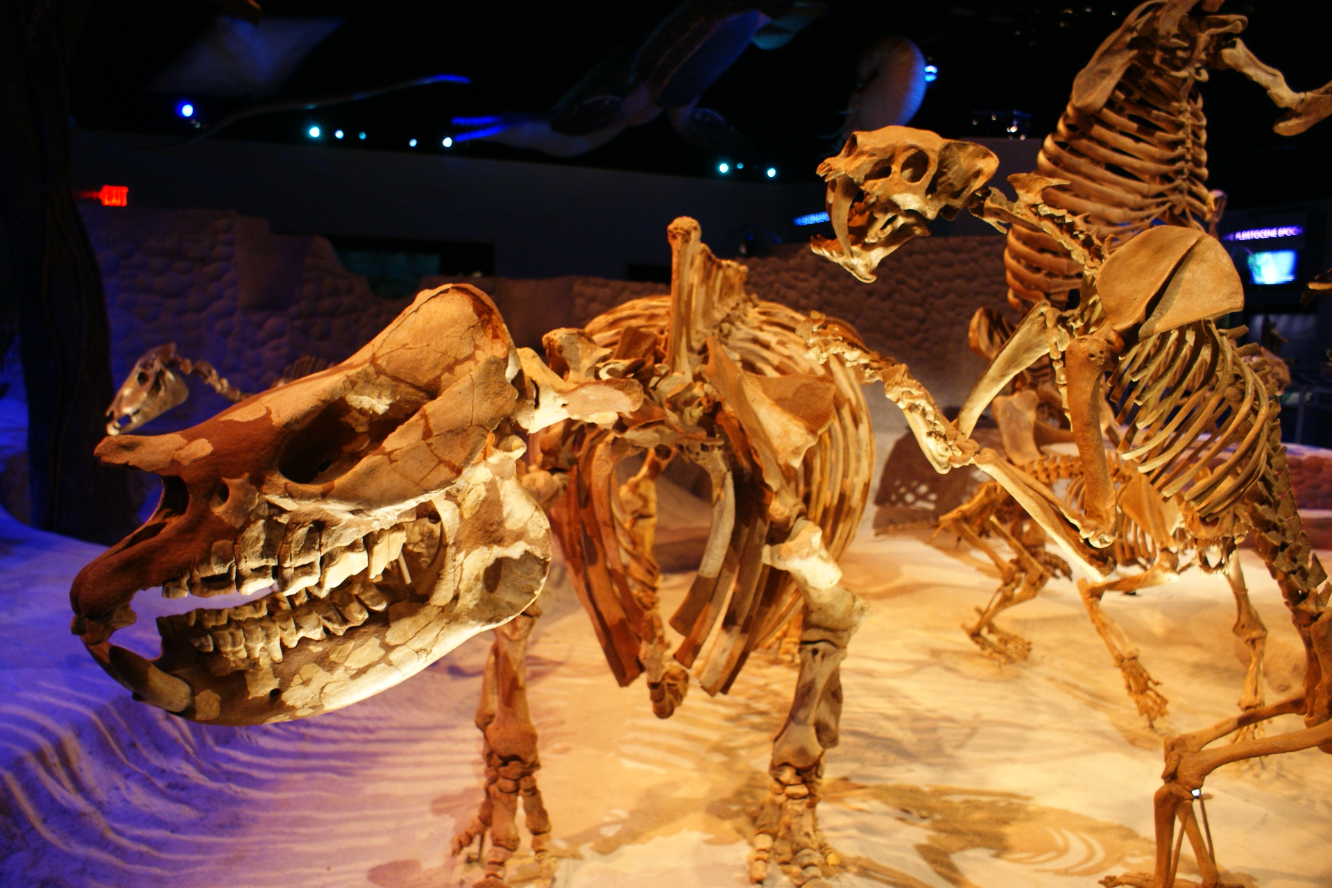 Florida Museum of Natural History Fossil Hall at the University of Florida